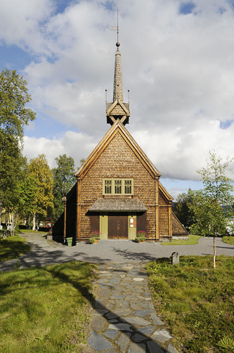 Ammarnäs timber church in Swedish Lapland